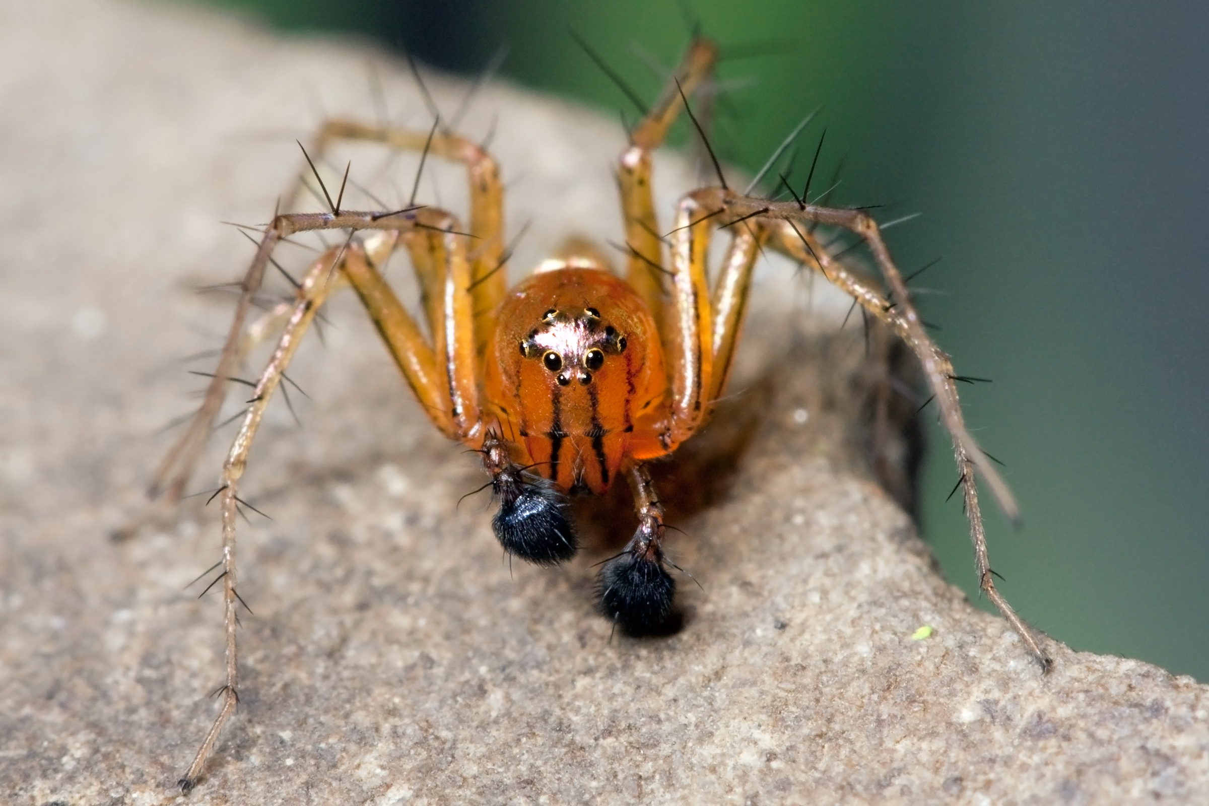 This is a photograph of a striped lynx spider (Oxyopes salticus) found at Shelby Park in Nashville, Tennessee. It is an adult male about 4–5 mm in length. It was shot with a Canon EOS 450D, 100mm f/2.8 USM Macro Lens, and 25mm extension tube.